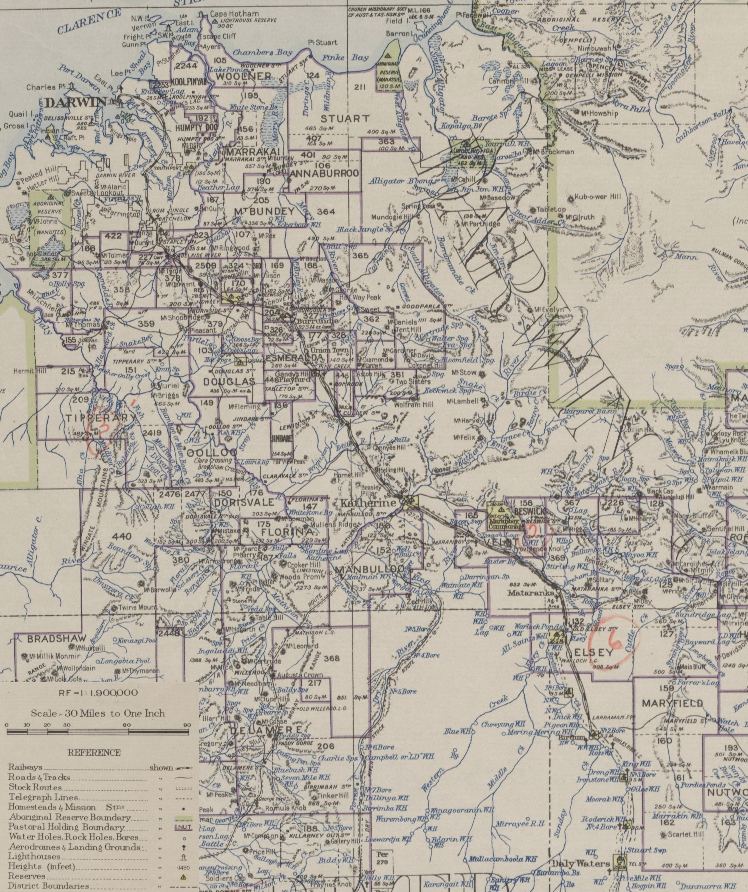 Map showing North Australia Railway from Darwin to Birdum 1936, published in 1945. Excerpt of Northern Territory of Australia pastoral map.